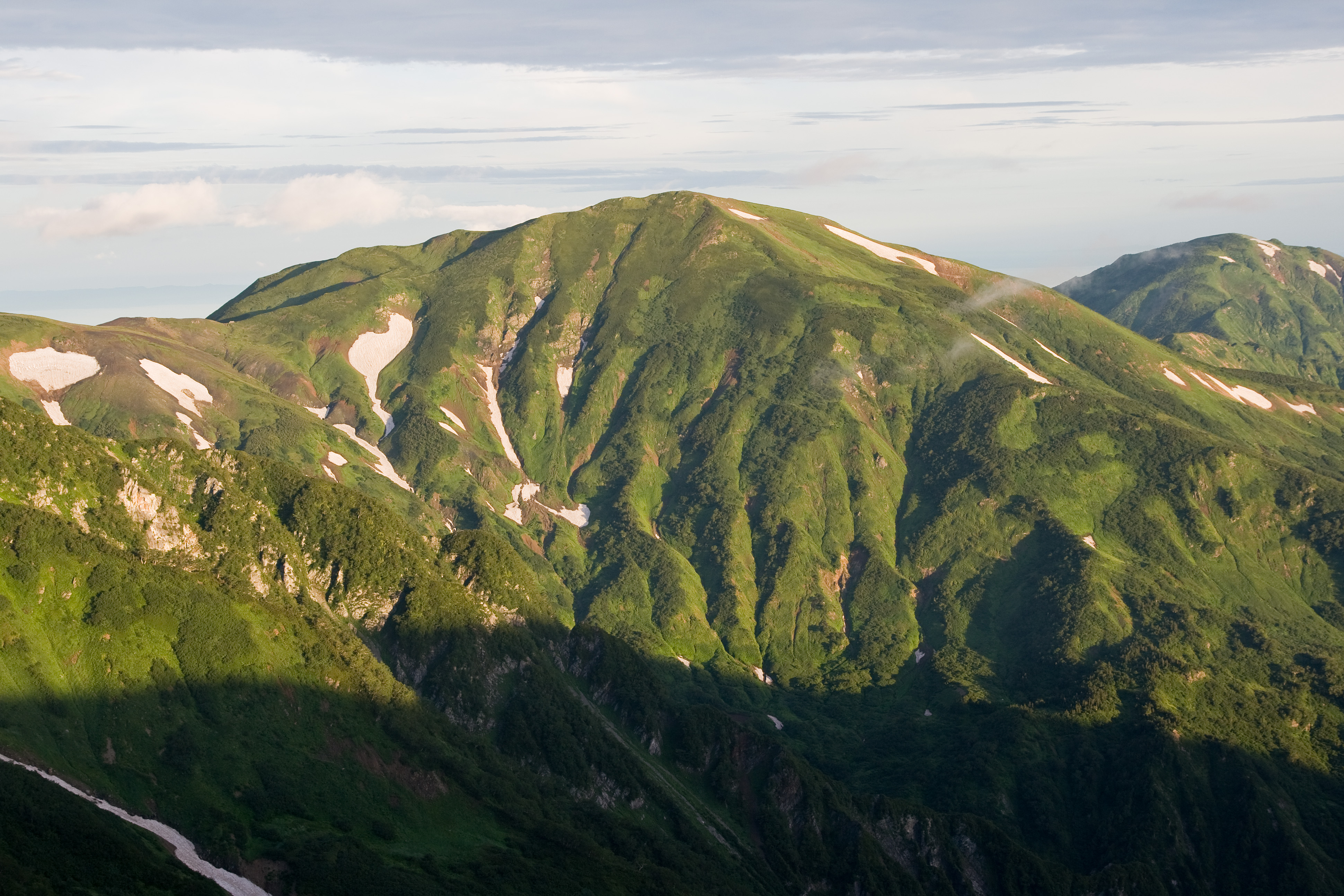 Mount Yukiguradake as seen from Raicho-zaka in Hida Mountains, Niigata Pref., Japan.